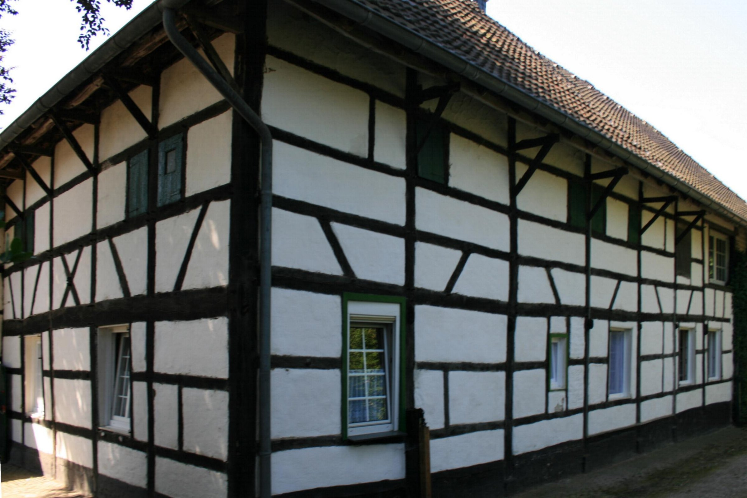 Cultural heritage monument No. M 048 in Mönchengladbach